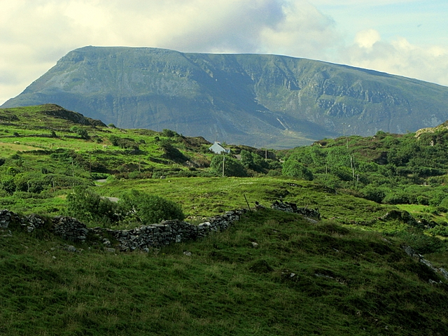 Towards Muckish. Note – the Google maps here are useless. Please refer to OSI Discovery Series Sheet 2 from which all accurate grid references have been made. Muckish mountain dominates from most vantage points around this area of Donegal. The countryside at Roshin near Croaghaderry is in the foreground.